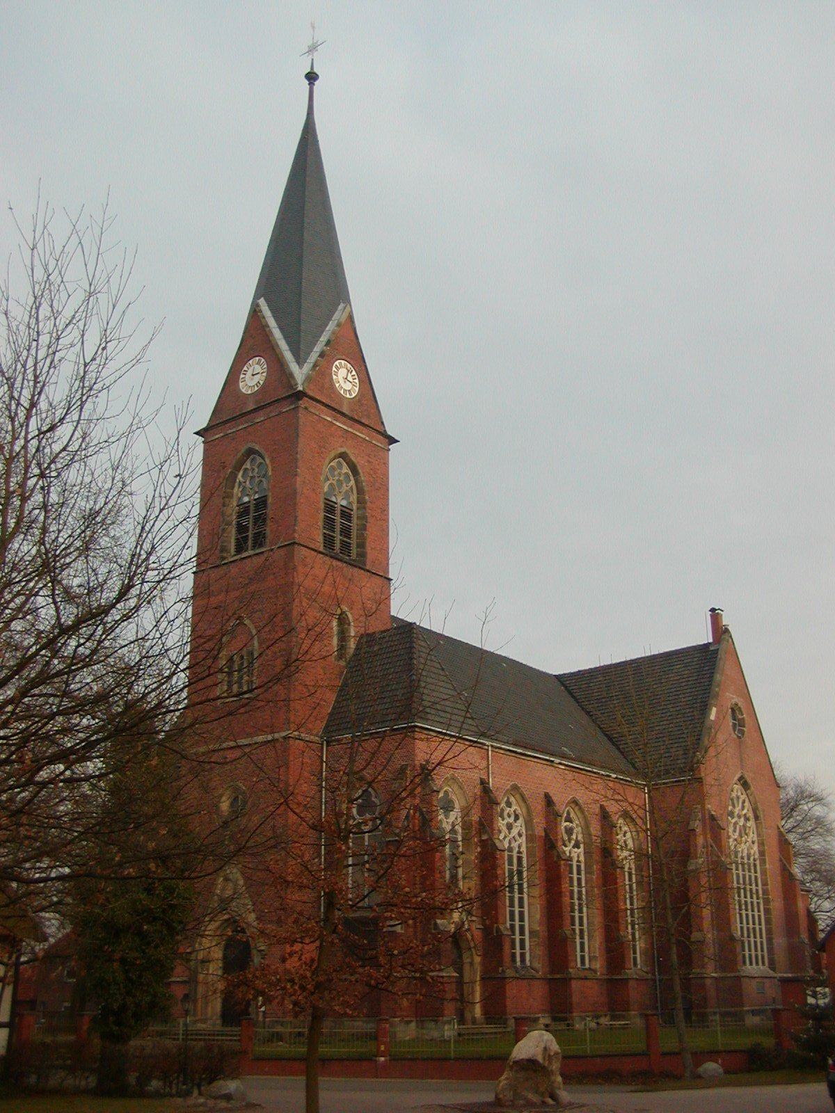 Church in Petershagen, Minden-Lübbecke, North Rhine-Westphalia, Germany.